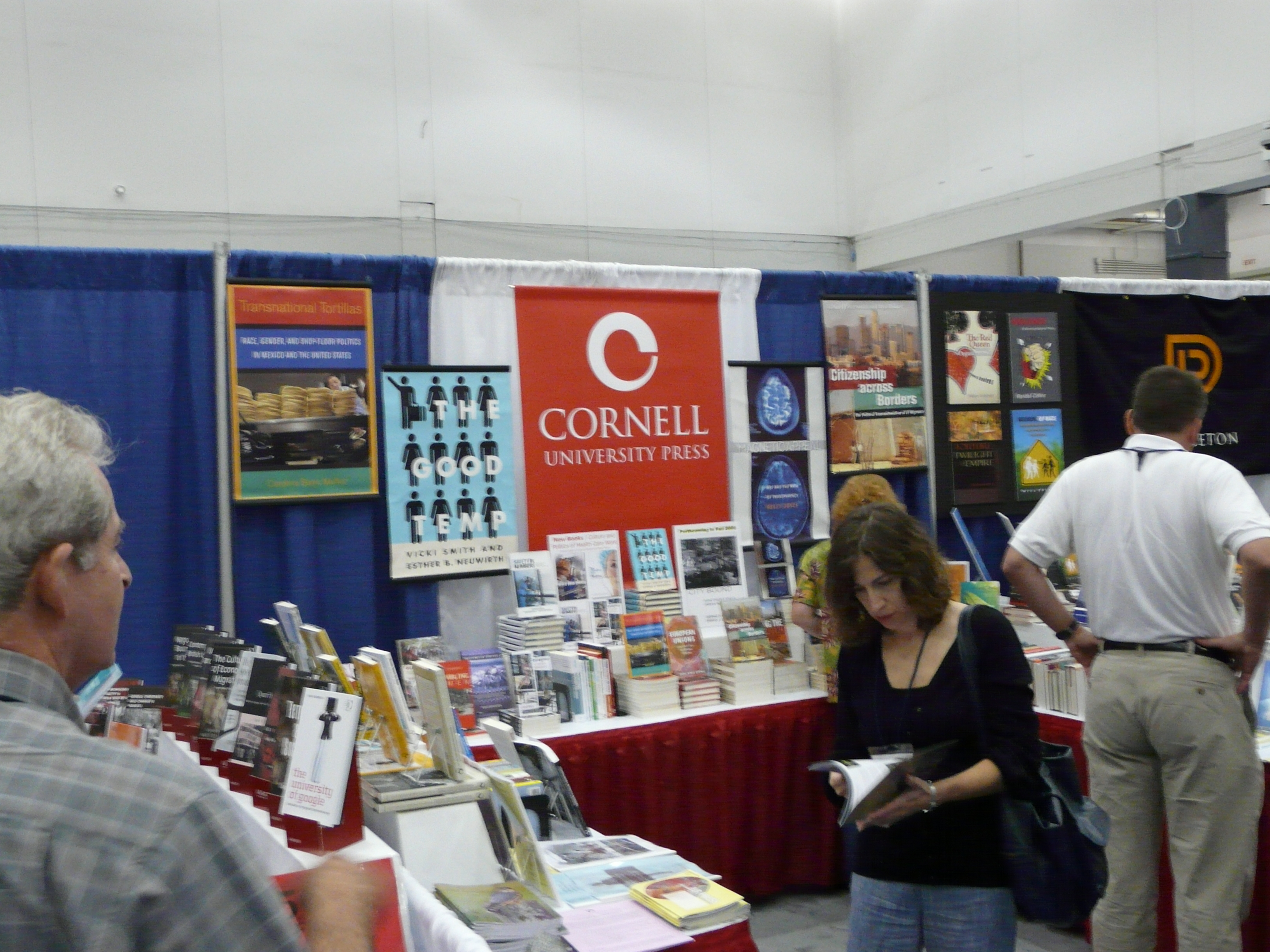 Boston. American Sociological Association conference.